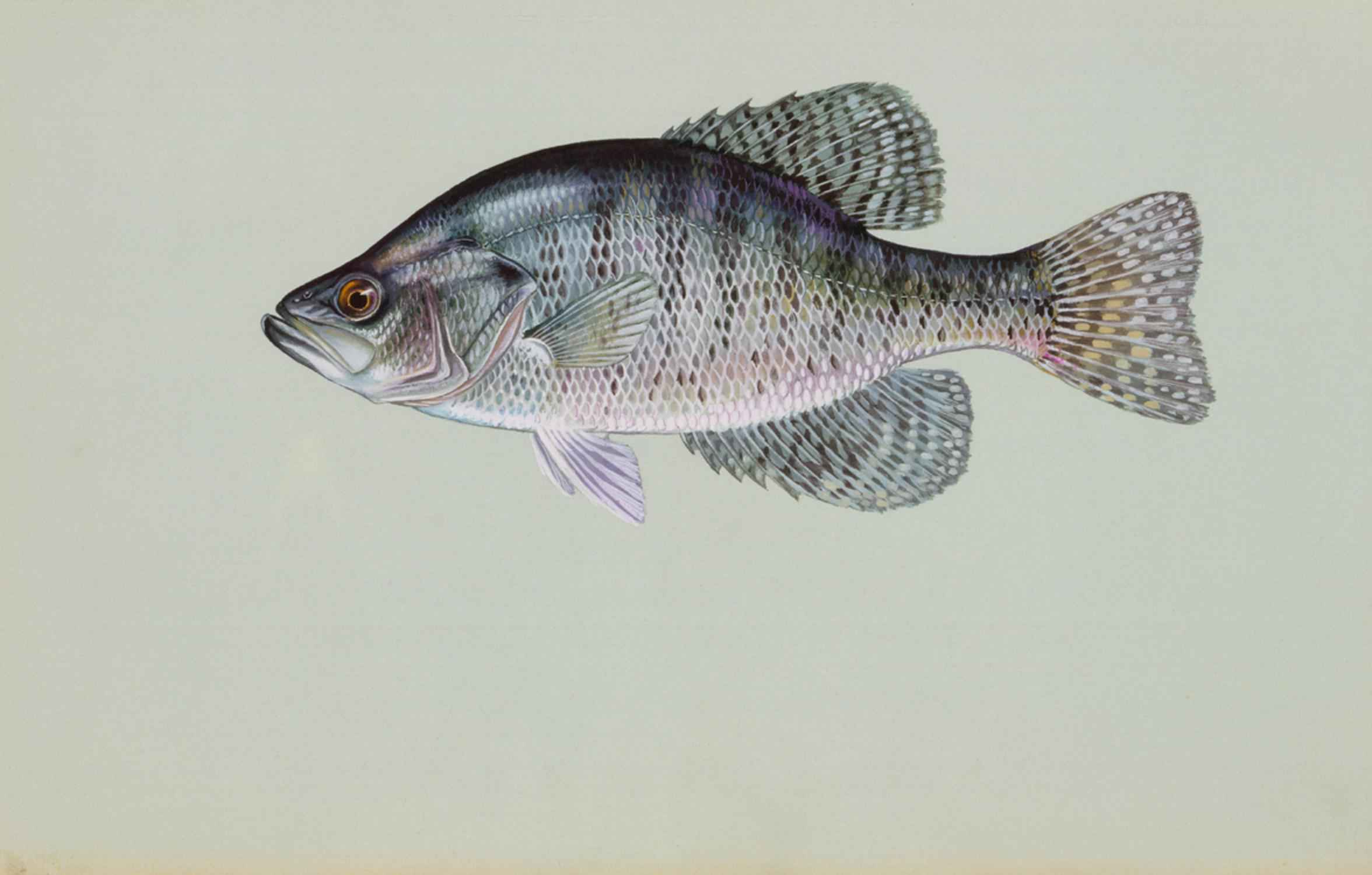 Image title: White crappie pomoxis annularis Image from Public domain images website